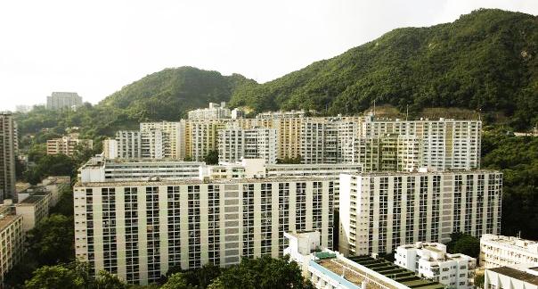 Ex-So Uk Estate Pano